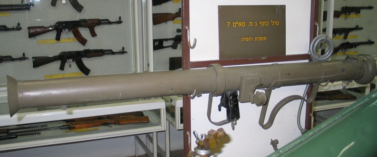 Description: Bazooka, apparently 3.5-inch M20 (mislabeled "SAM-7 shoulder-launched anti-aircraft missile") in Batey ha-Osef Museum, Tel-Aviv, Israel. Source: Photo by me, User:Bukvoed.